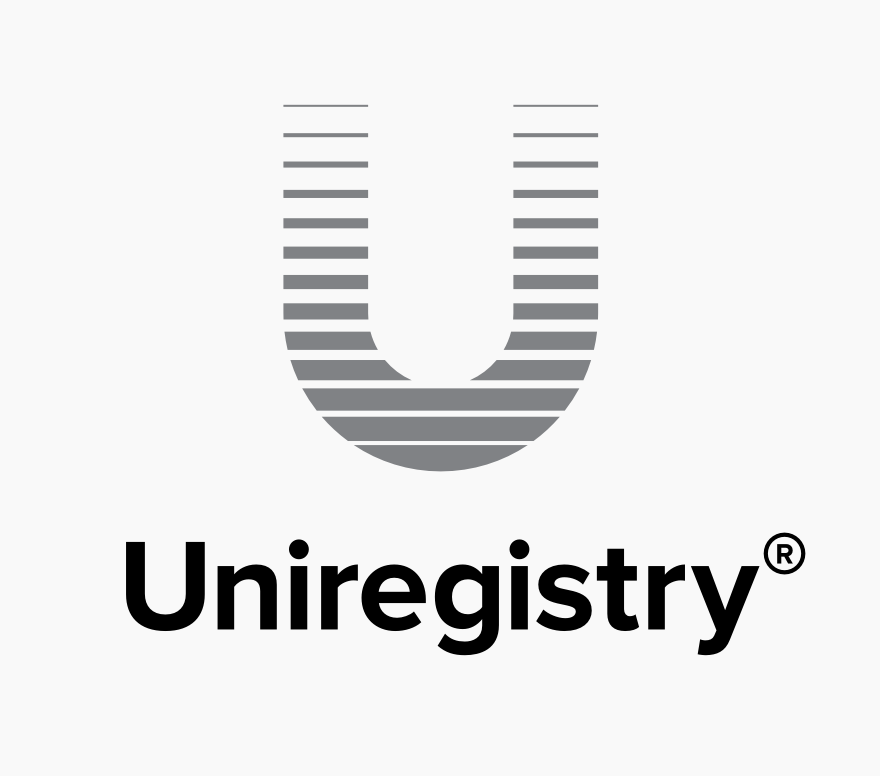 The corporate logo of uniregistry